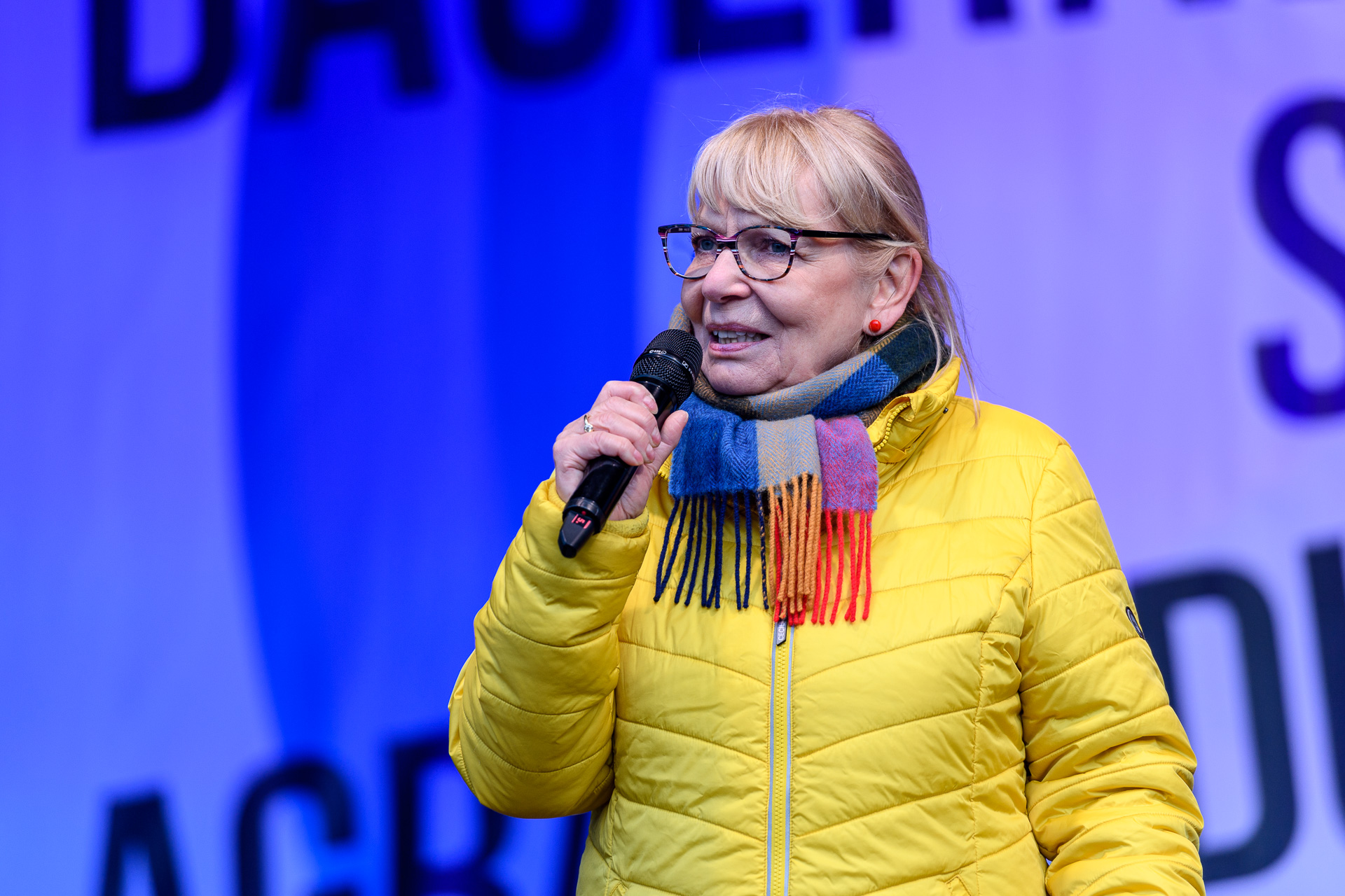 Wir haben es satt: Undine Kurth (Vizepräsidentin Deutscher Naturschutzring und ehemaliges MdB) spricht bei Demo für eine Agrarwende in Berlin, 18.01.20